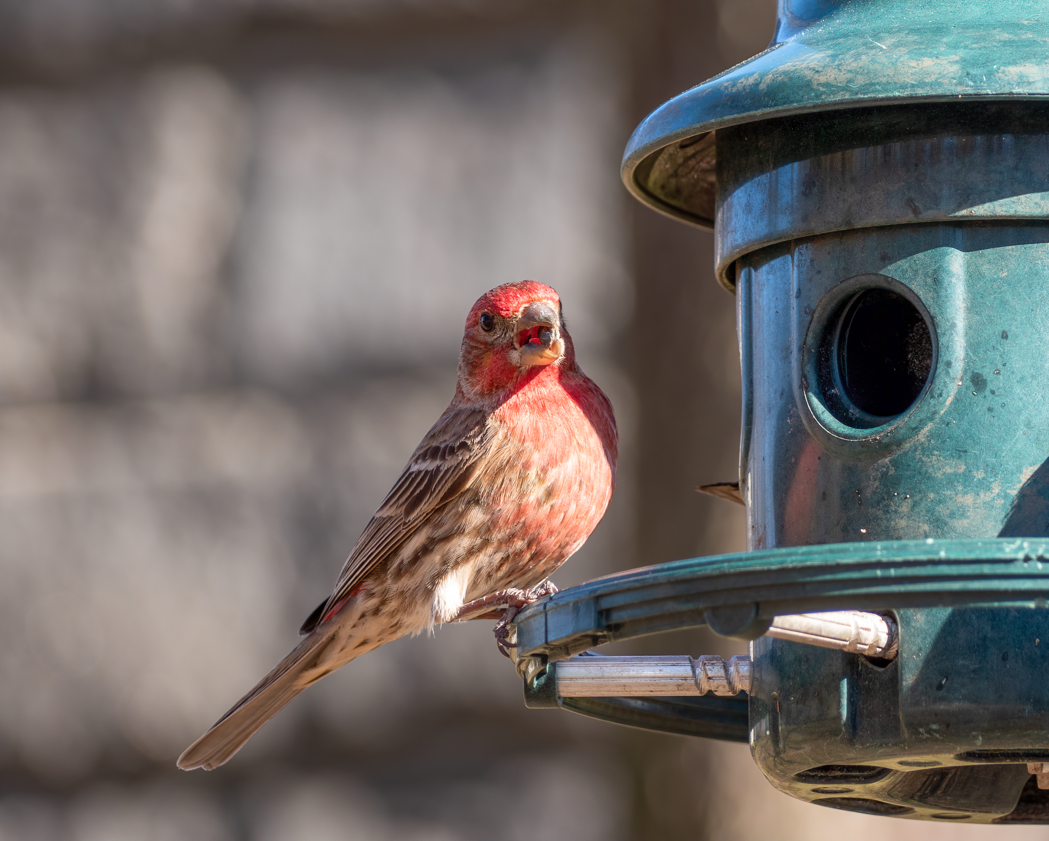 House finch at a feeder in Green-Wood Cemetery